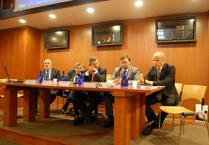 Professor Serhiy Kozmenko - the member of the Organizing Committee of the International conference "Financial Distress: Corporate Governance and Financial Reporting Issues" took place at the Link Campus University (Link Campus University, Rome, Italy, October 17-18, 2013)